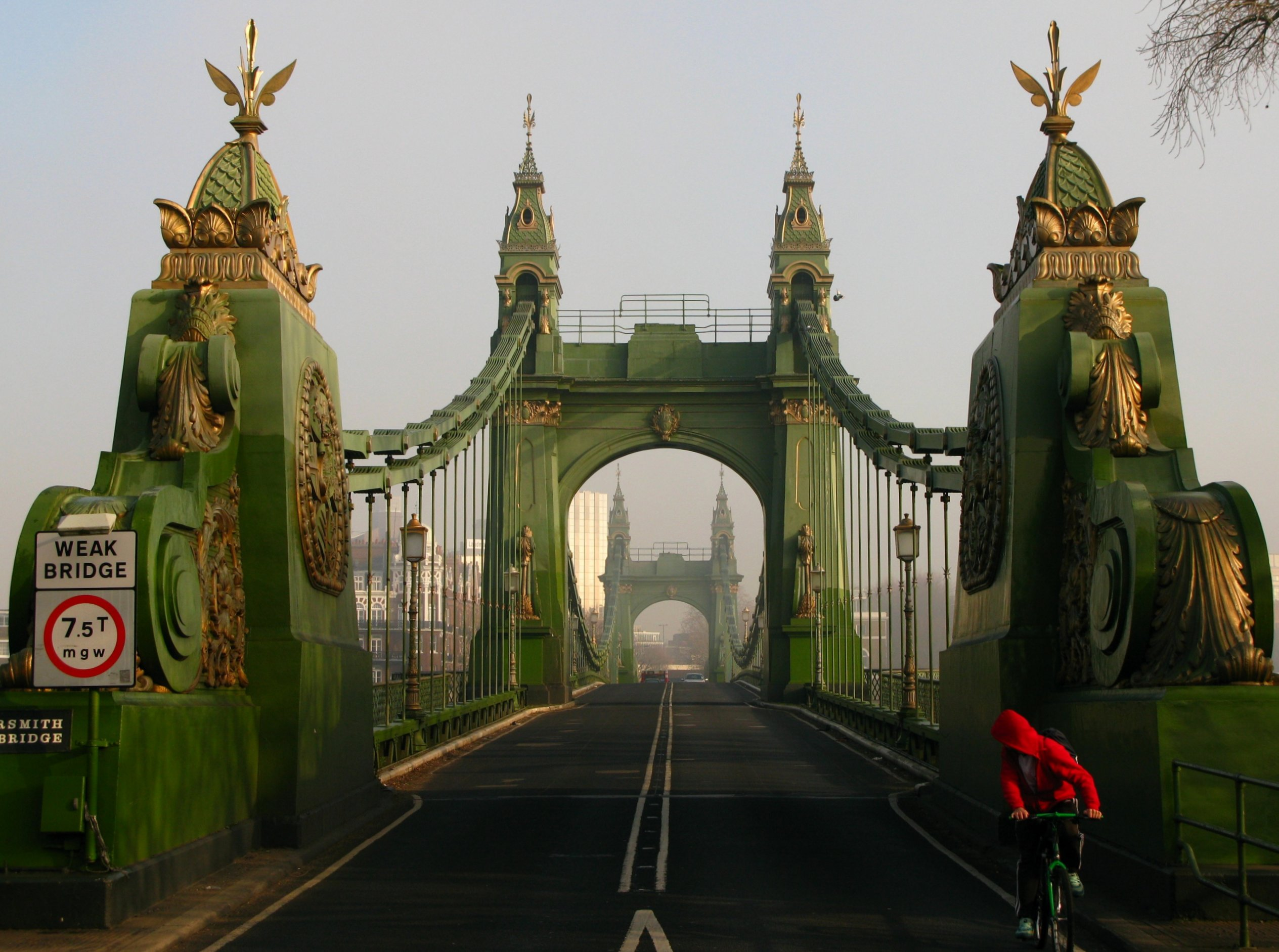 Hammersmith Bridge, London